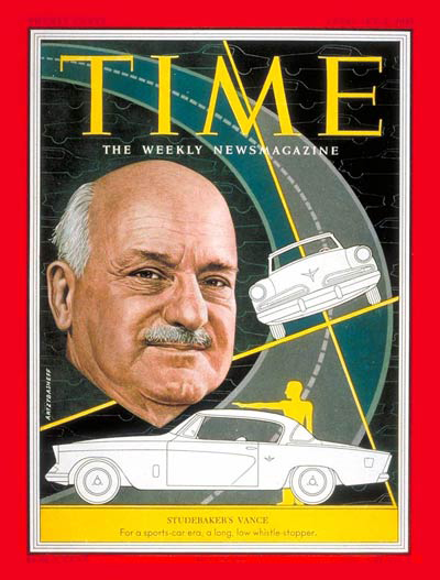 Time magazine, Volume 61 Issue 5. Front cover is an illustration of Harold S. Vance, chairman of the Studebaker Corporation.